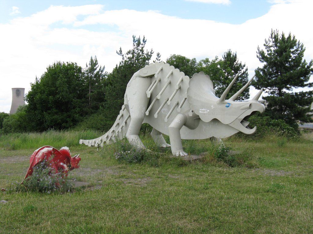 Painted steel sculpture of a triceratops with baby. A second baby triceratops sculpture is out of shot.